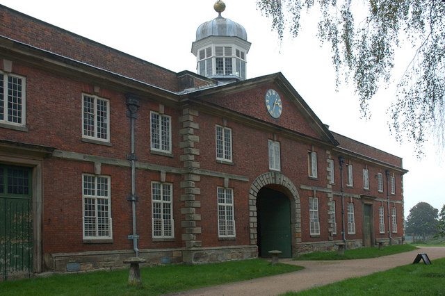 The Stables, Calke Abbey The stables at Calke Abbey were built during the period 1712-1716. They have been restored by the National Trust.